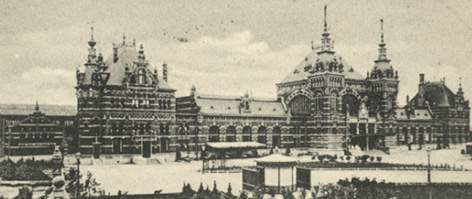 Second train station in 's-Hertogenbosch, permission obtained from